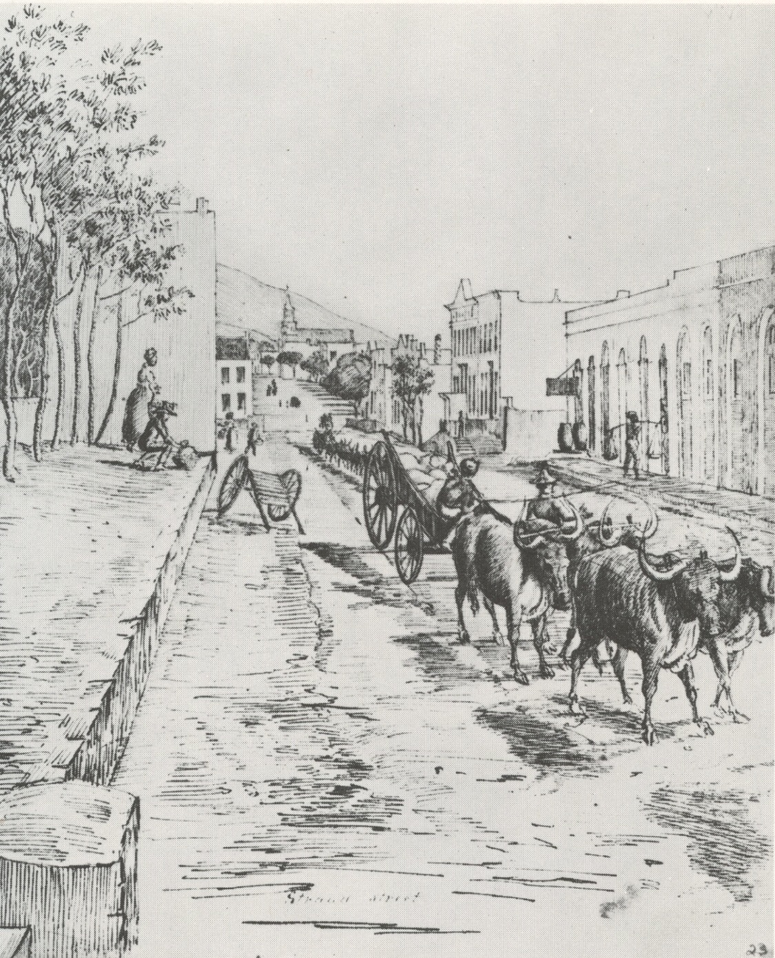 A Frederick Knyvett pen and ink sketch of Strand Street, Cape Town, made from the corner of Adderley Street 1832. The Lutheran Church is in the centre.